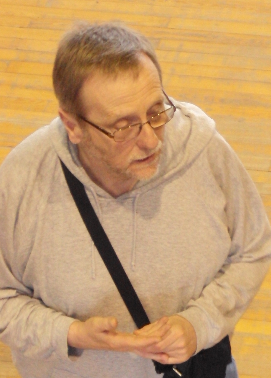 Serbian actor Bogdan Diklic, Bok fest - theatre festival in Bjelovar, Croatia